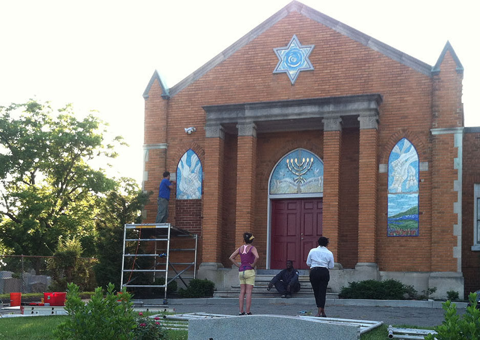 The chapel at the Elesavetgrad Cemetery (in Washington, D.C.) during the installation of mosaics.